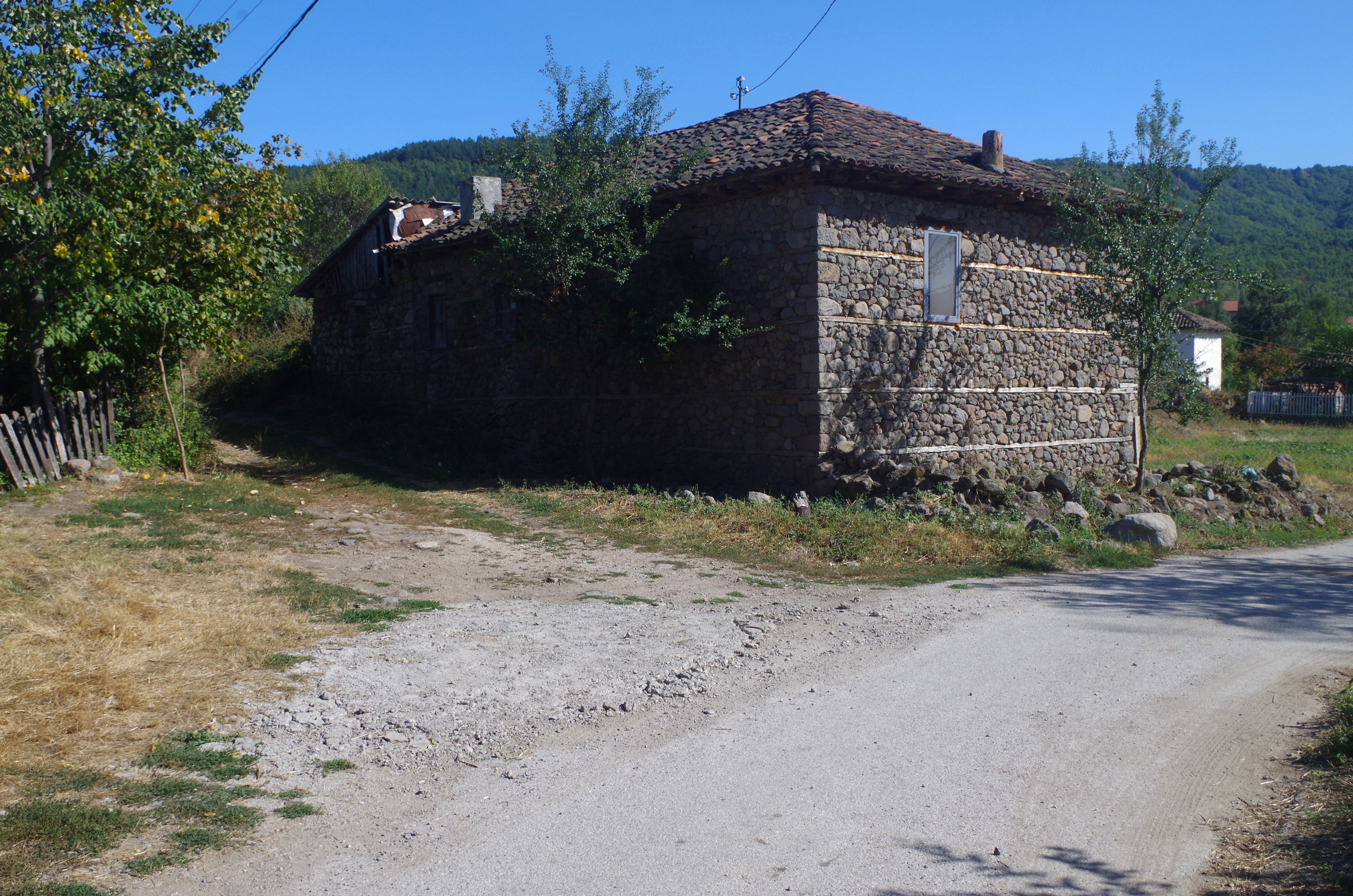 Traditional house in the village of Čemersko